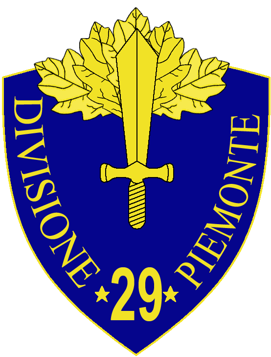 29a Divisione Fanteria Piemonte insignia, Regio Esercito, Italy, WWII